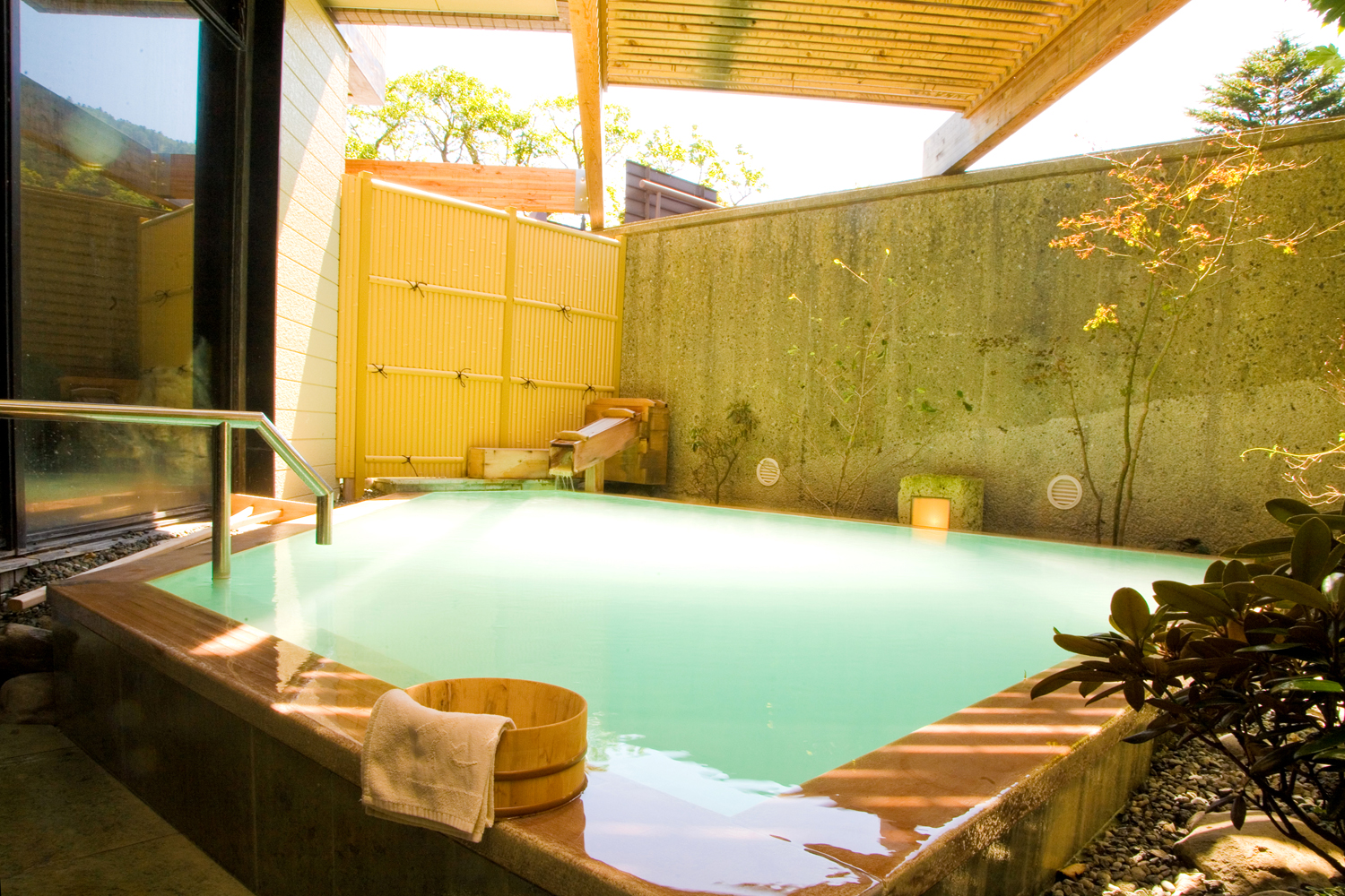 An outer hot spring bath of Hana-An, one of tourist hotels of Chūzenji Onsen. It draws water from Nikkō Yumoto Onsen.